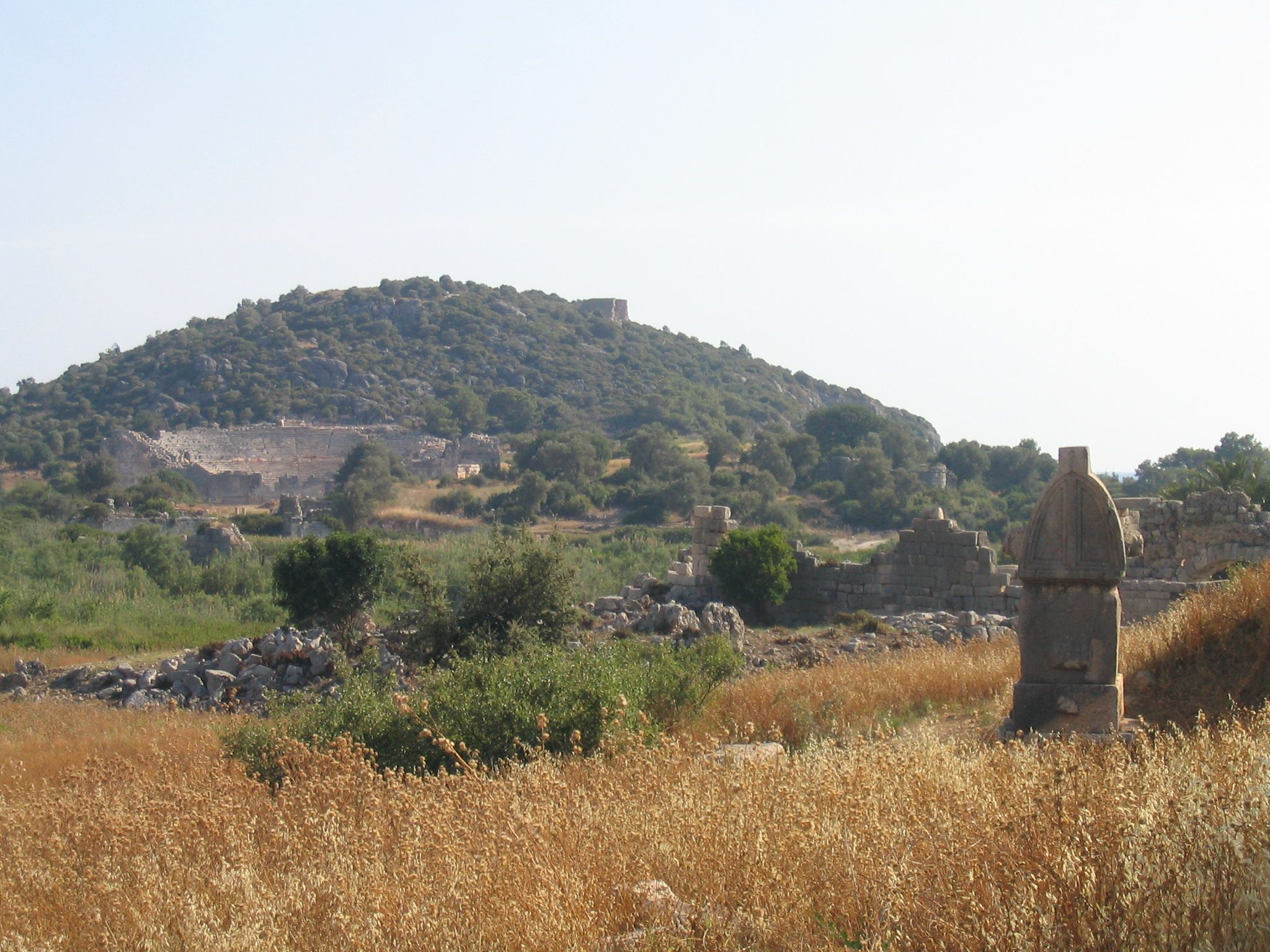 View of Patara, Turkey